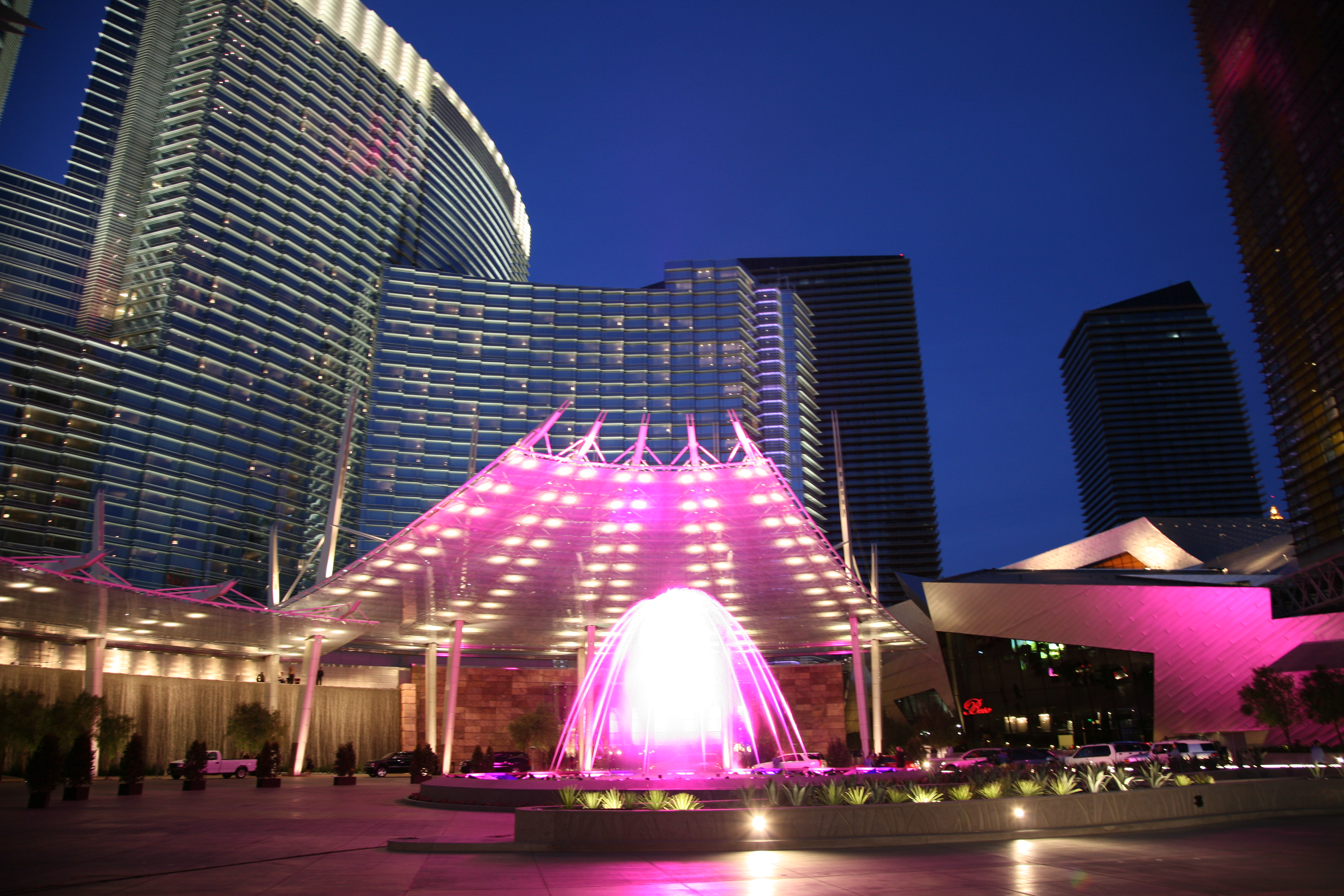 Outside, front view of Aria hotel in Las Vegas, Nevada.